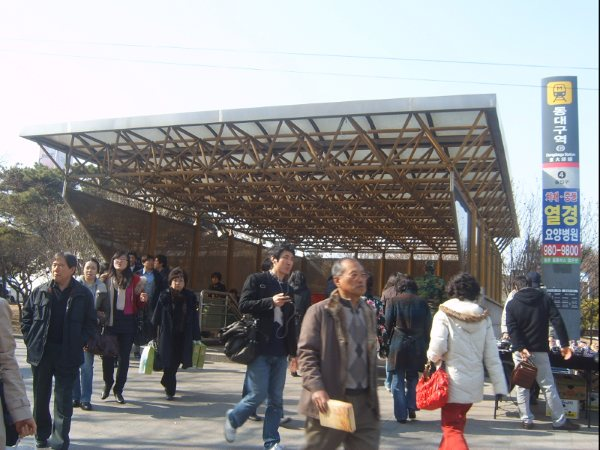 Dongdaegu station exit 4 entrance